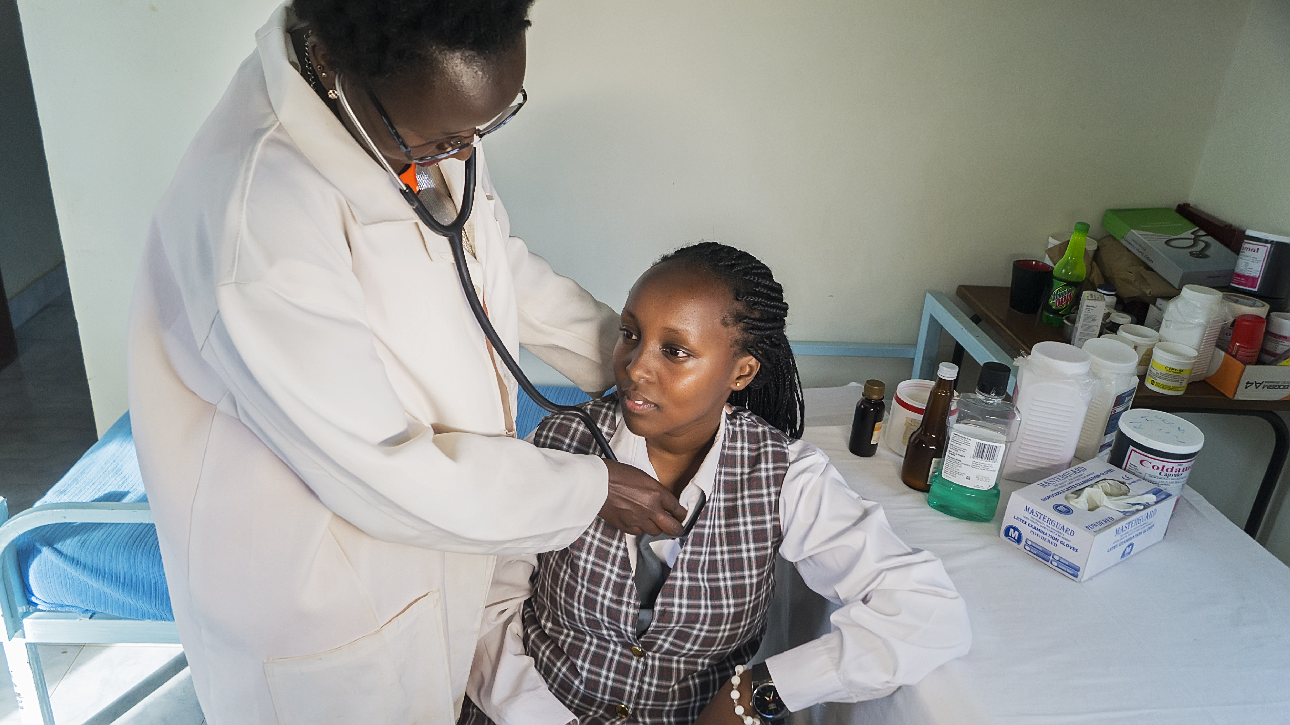 School nurse checks student's health This is an image of "African people at work" from Kenya